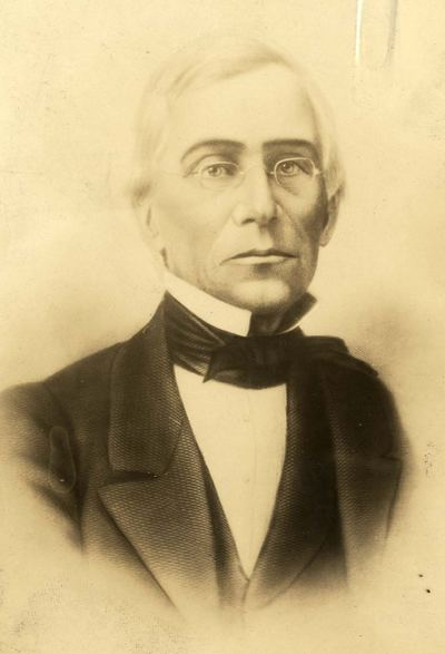 Caleb Mills, yellow, daguerreotype